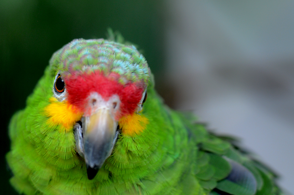 Red-lored Amazon at Jungle Island, Miami, Florida, USA.